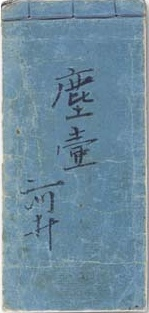 Chiritsubo, the travel diary by Kawai Tsuginosuke (Kawai Tsugunosuke)